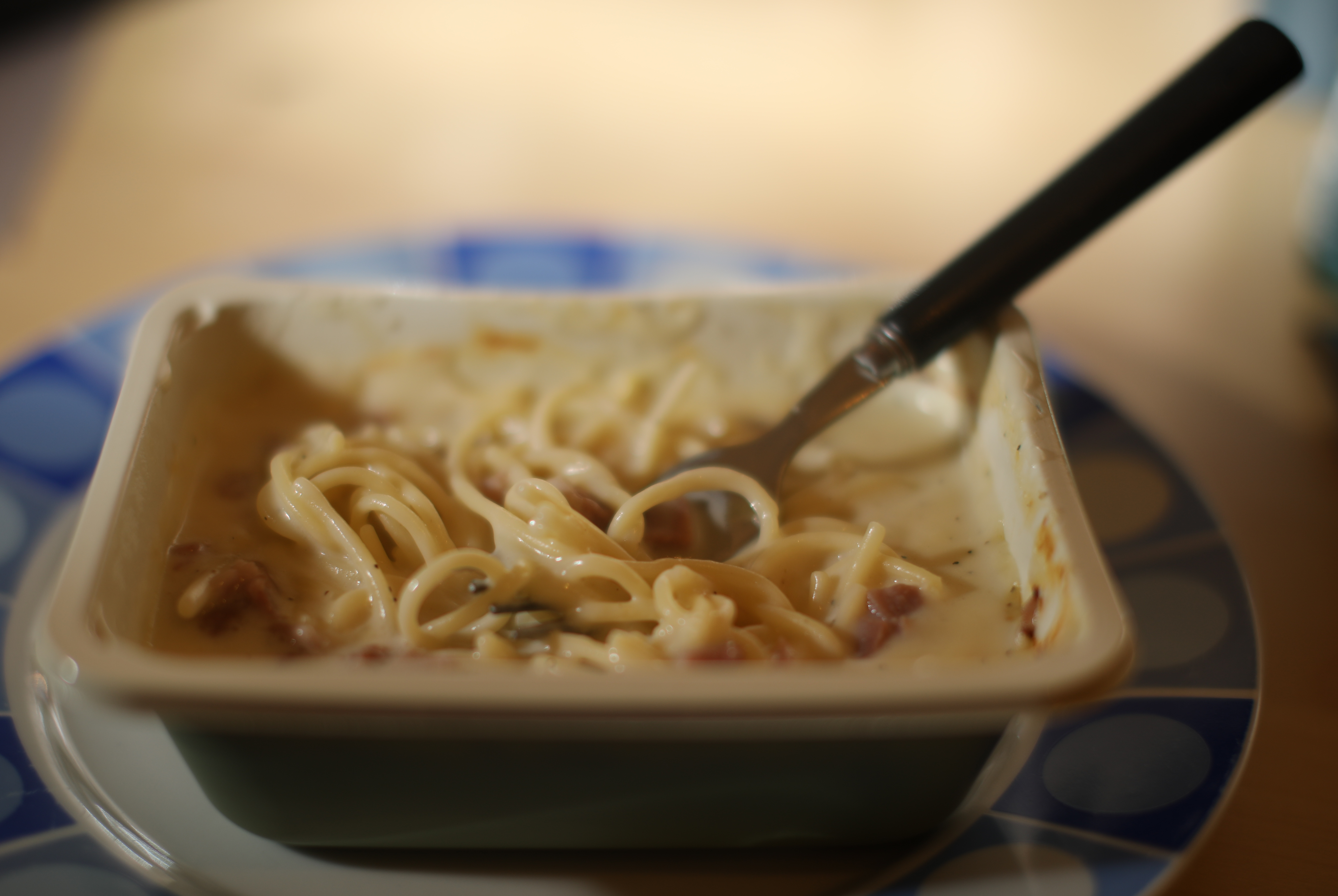 Photo of a spaghetti carbonara ready meal